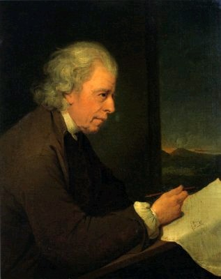 Painting of John Whitehurst the geologist and clockmaker